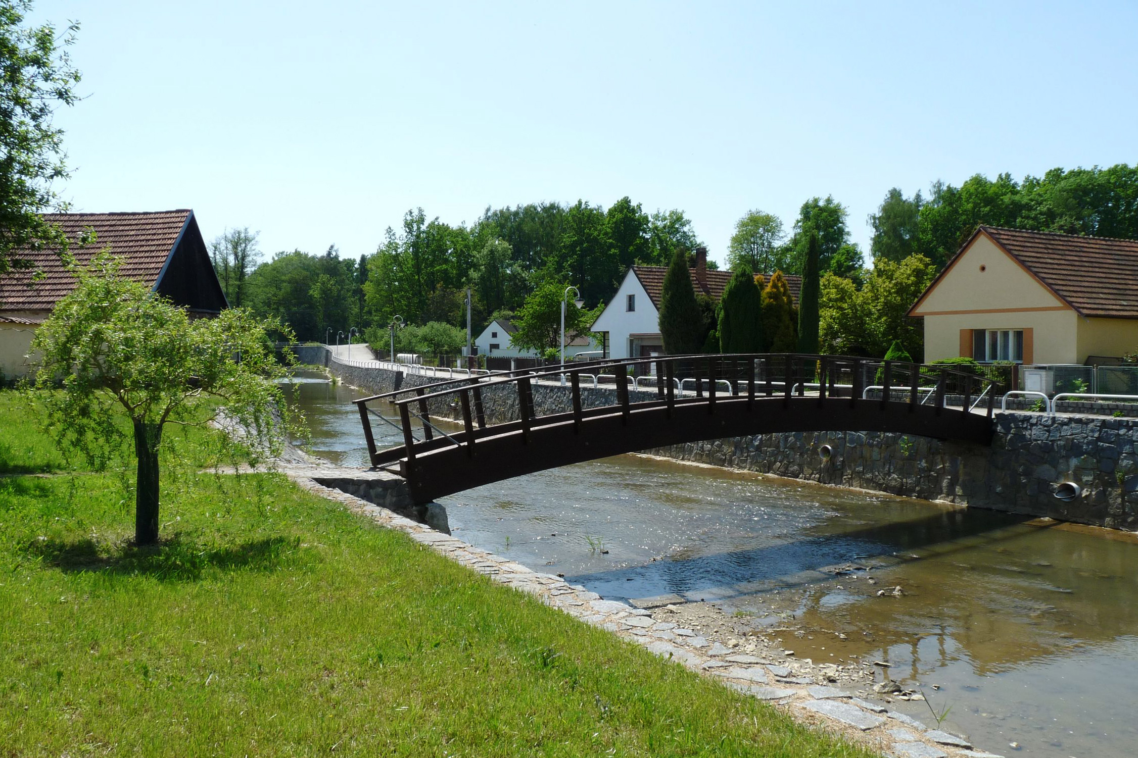 Černovický Stream in the municipality of Budislav, Tábor District, South Bohemian Region, Czech Republic.